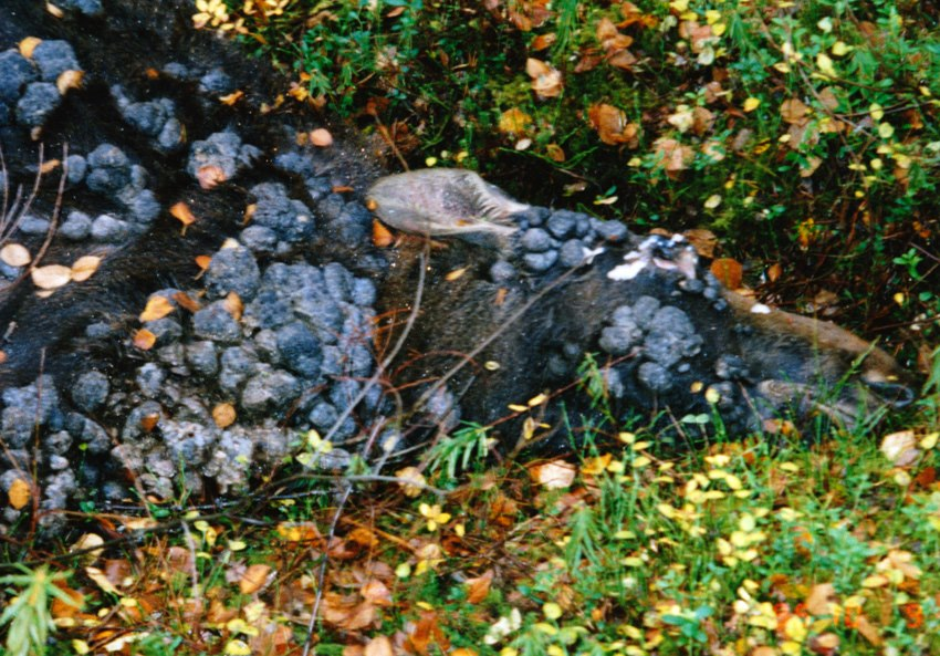 Skin disease killed this moose.